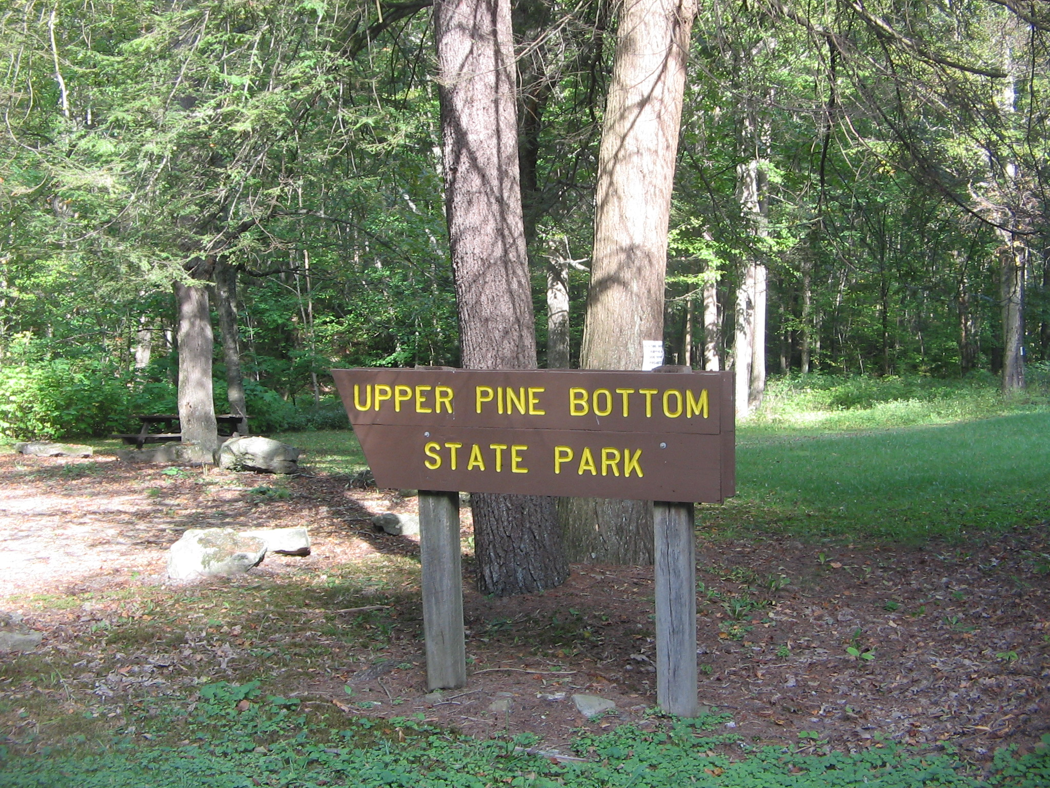 Entrance sign at Upper Pine Bottom State Park, Cummings Township, Lycoming County, Pennsylvania, USA